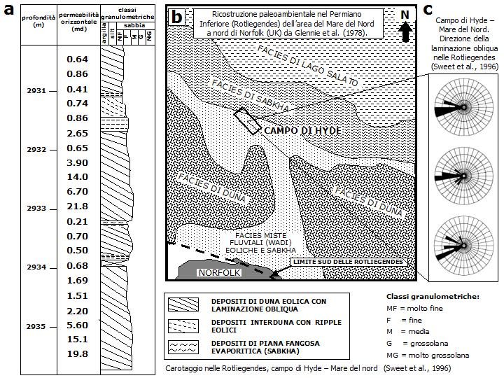 Hyde field (North of Norfolk coast, UK) - a) sedimentological profile from a cored interval in the Rotliegendes (Early Permian), from Sweet et al., 1996 (modified); b) reconstruction of the depositional environments during the Rotliegendes deposition (after Glennie et al., 1978, modified); rose diagrams of cross-bedding dip direction (dipmeter data) in the Rotliegendes of Hyde field (from Sweet et al, 1996, modified). Text in Italian. Sources: 1) M. L. Sweet, C. J. Blewden, A. M. Carter, and C. A. Mills. Modeling Heterogeneity in a Low Permeability Gas Reservoir Using Geostatistical Techniques, Hyde Field, Southern North. Sea AAPG Bulletin, V. 80, No. 11 (November 1996), P. 1719–1735. 2) K. W. Glennie, G. C. Mudd & P. J. C. Nagtegaal. Depositional environment and diagenesis of Permian Rotliegendes sandstones in Leman Bank and Sole Pit areas of the UK southern North Sea. Jl geol. Soc. Lond. Vol. 135, 1978, pp. 25-34.